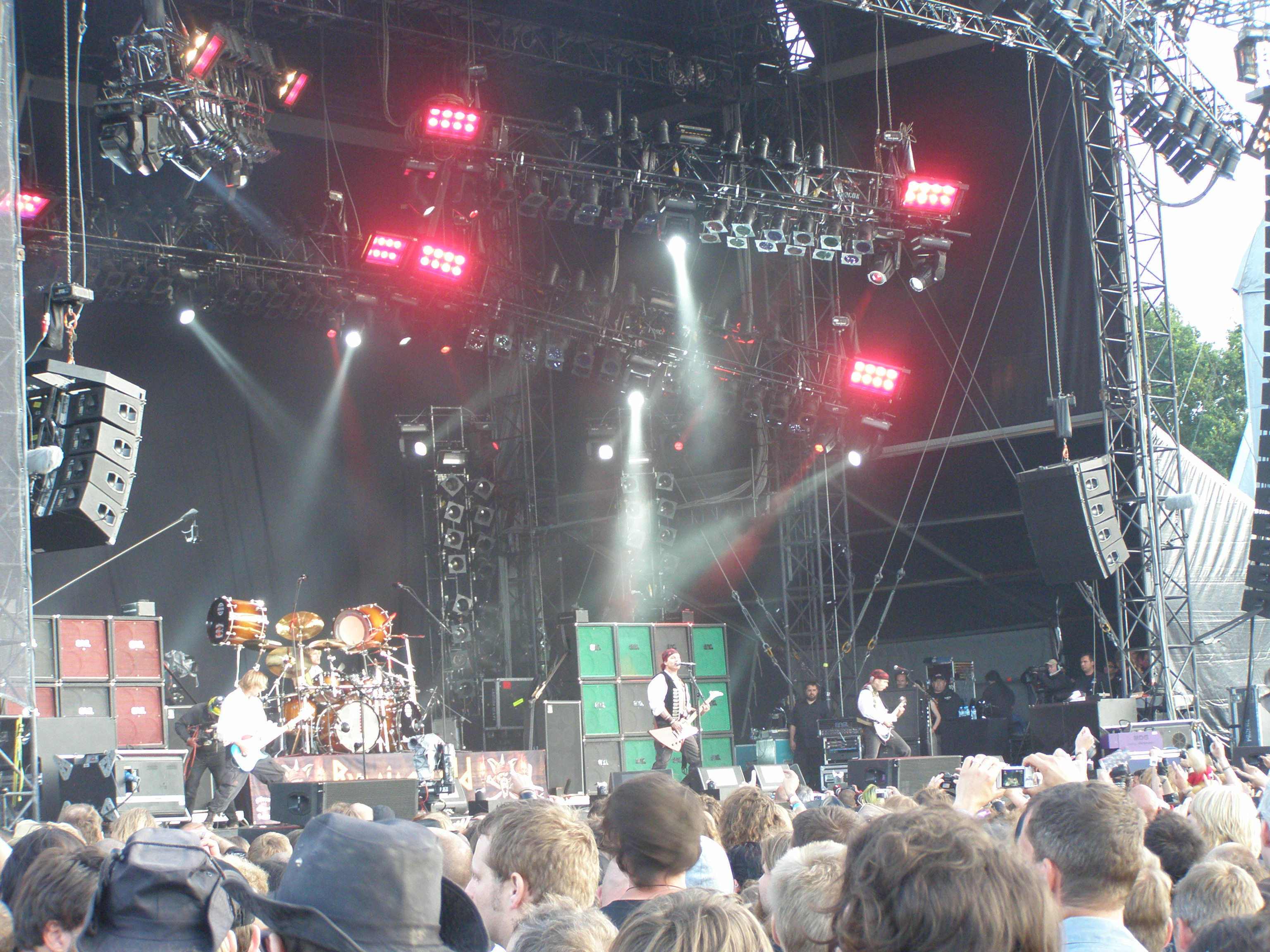 Running Wild live at Wacken Open Air 2009